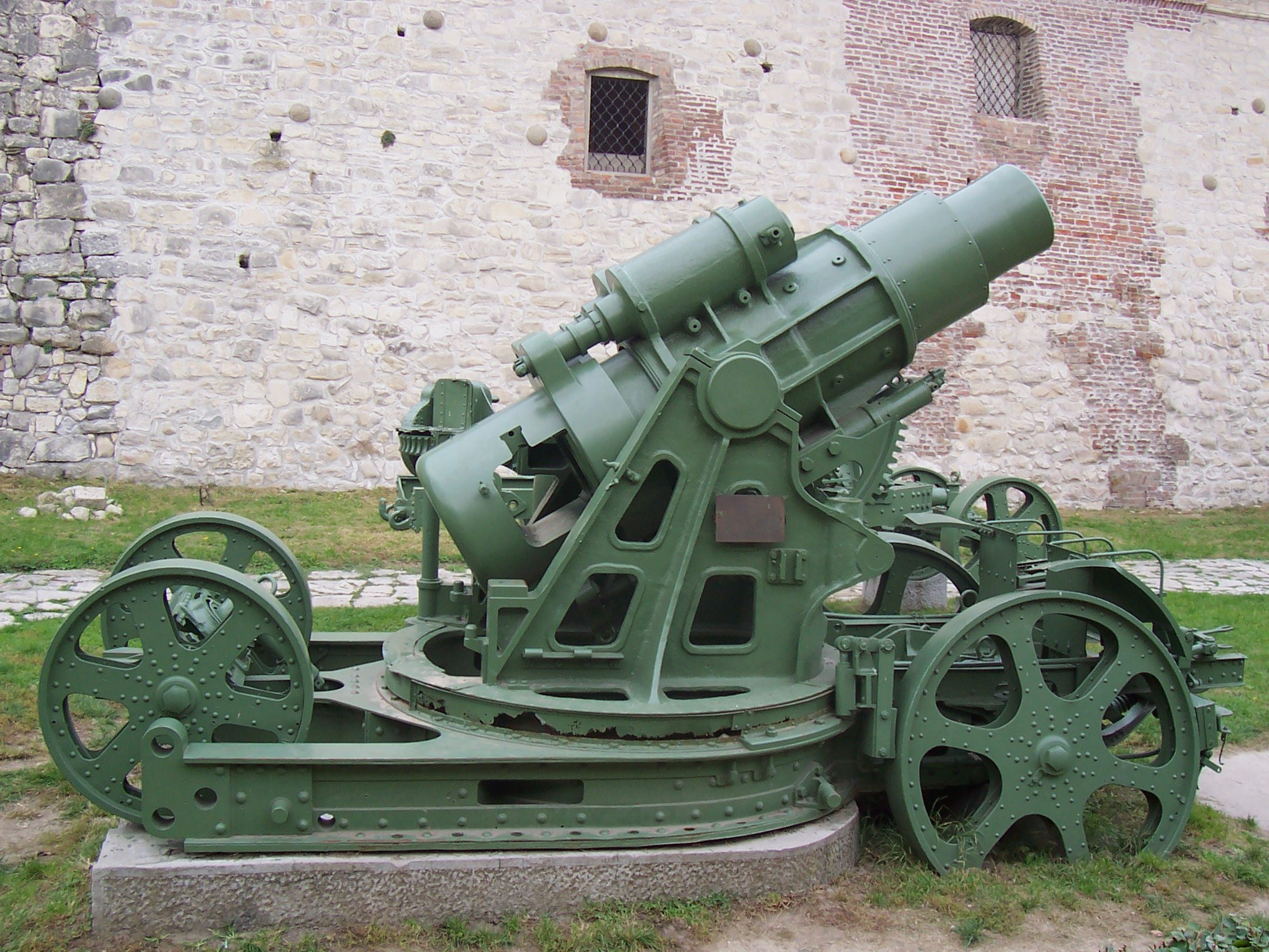 Škoda 305 mm Model 1911 cannon - side view. Photograph © 2005 by Nikola Smolenski. Taken at the Belgrade Military Museum.